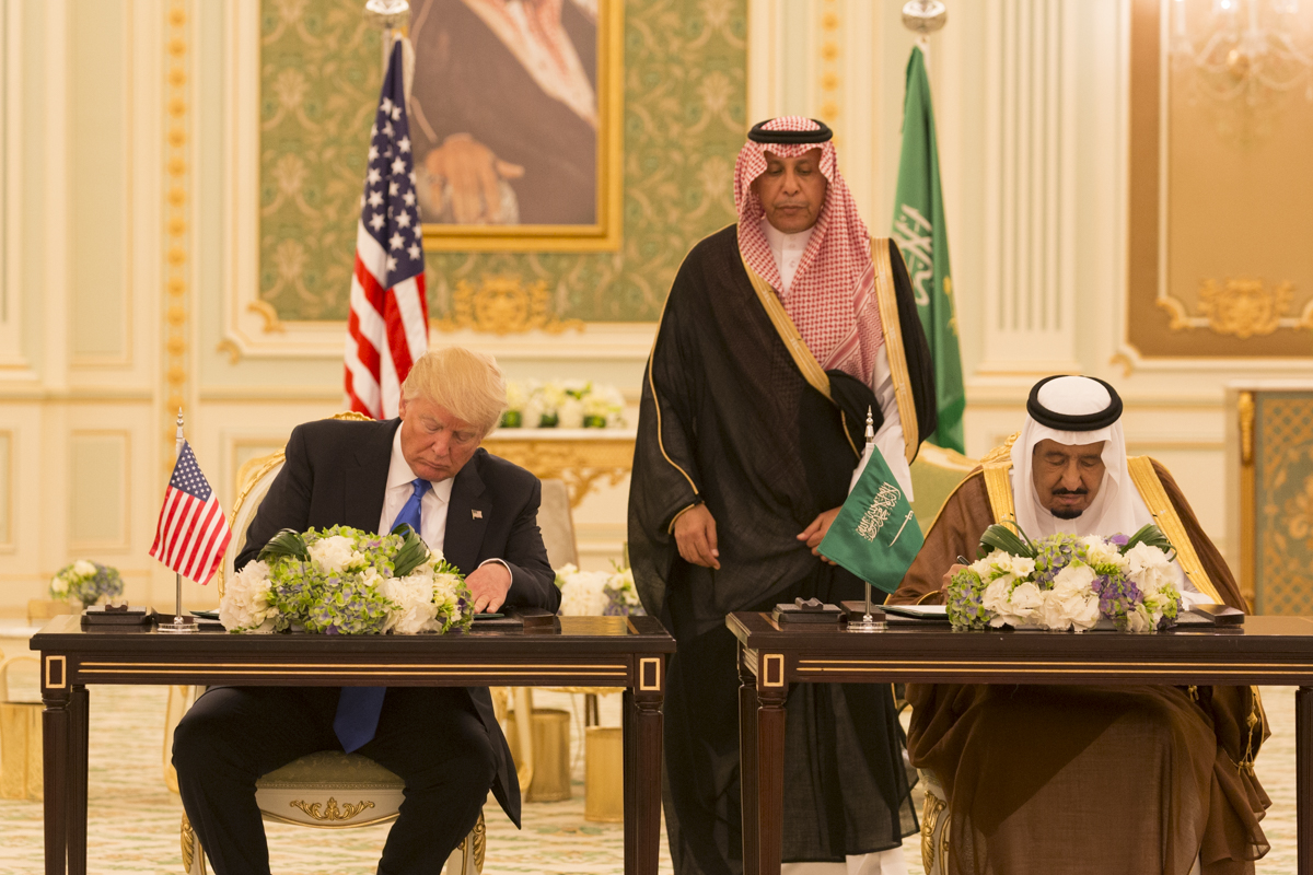 President Donald Trump and King Salman bin Abdulaziz Al Saud of Saudi Arabia sign a Joint Strategic Vision Statement for the United States and the Kingdom of Saudi Arabia, during ceremonies, Saturday, May 20, 2017, at the Royal Court Palace in Riyadh, Saudi Arabia. (Official White House Photo Shealah Craighead